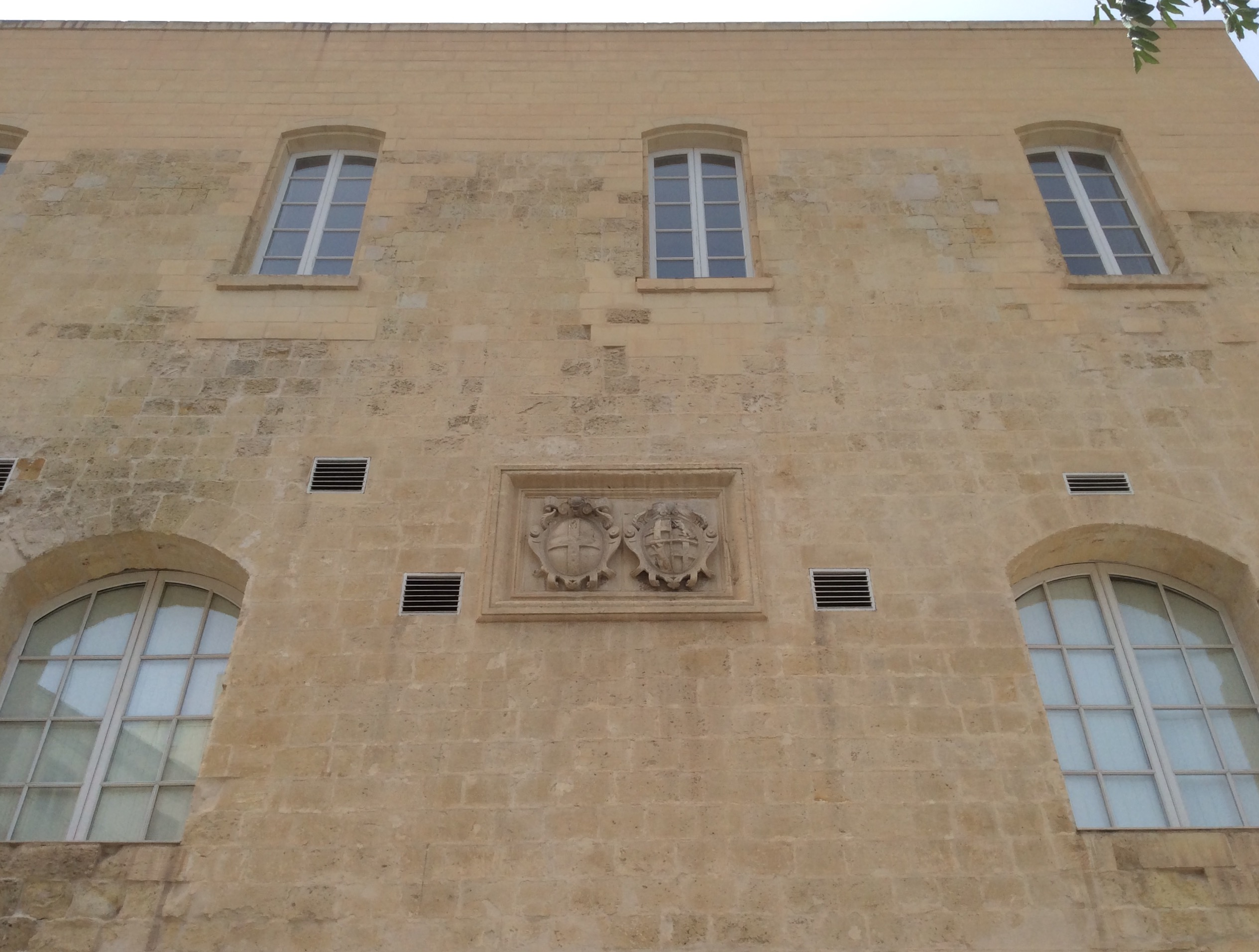 16th-century Fortification Interpretation Centre